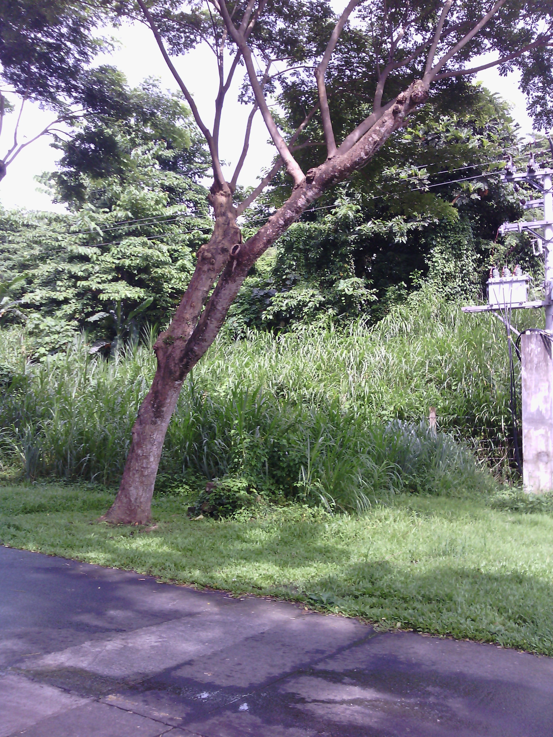 Canlubang Golf & Country Club faultline zone